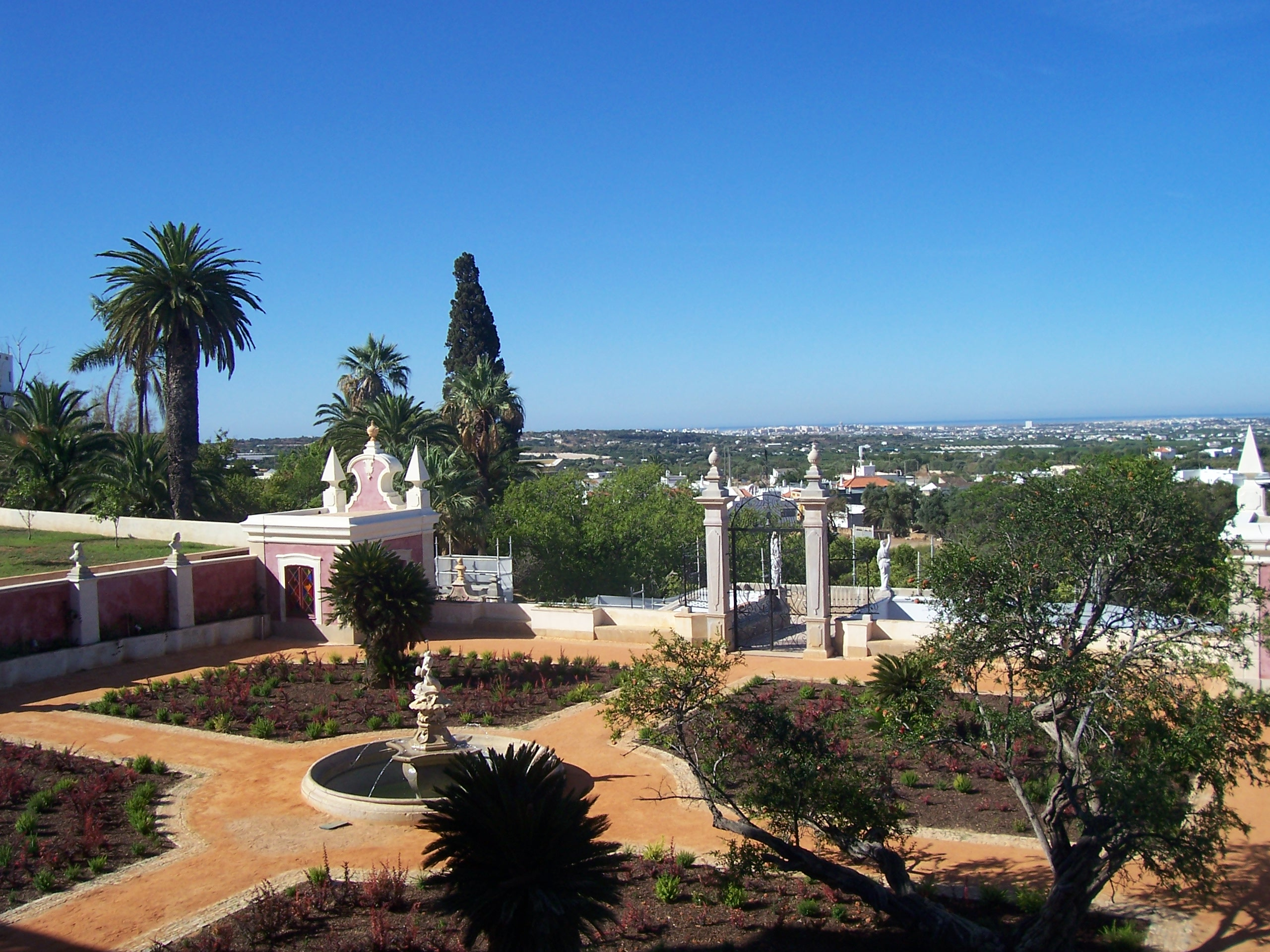 Baroque garden of the Palácio de Estoi. A Pousada located in Estoi, Faro district, Algarve region, Portugal.